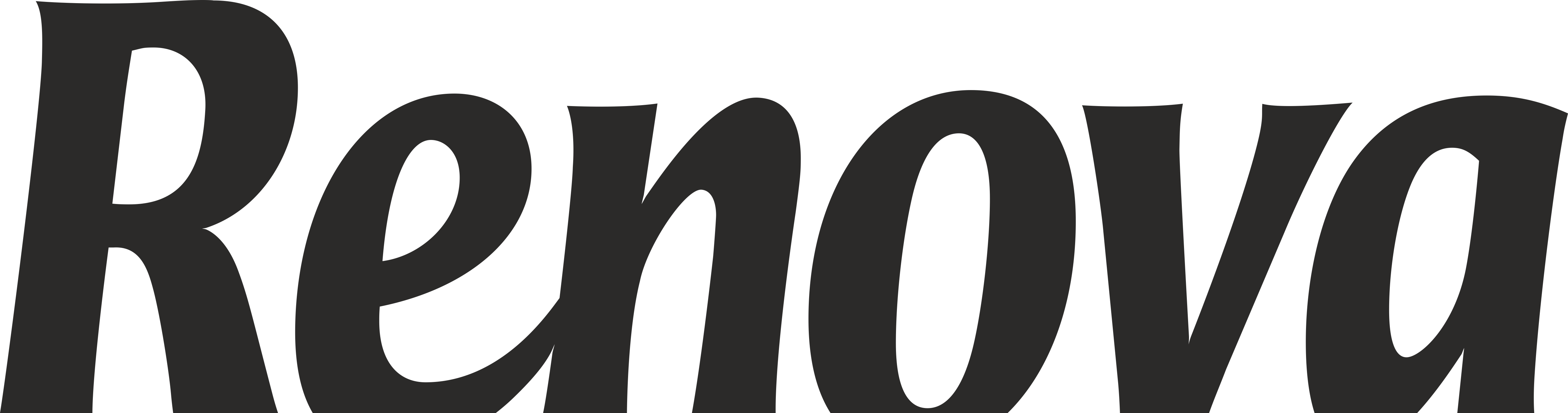 Renova brand logo